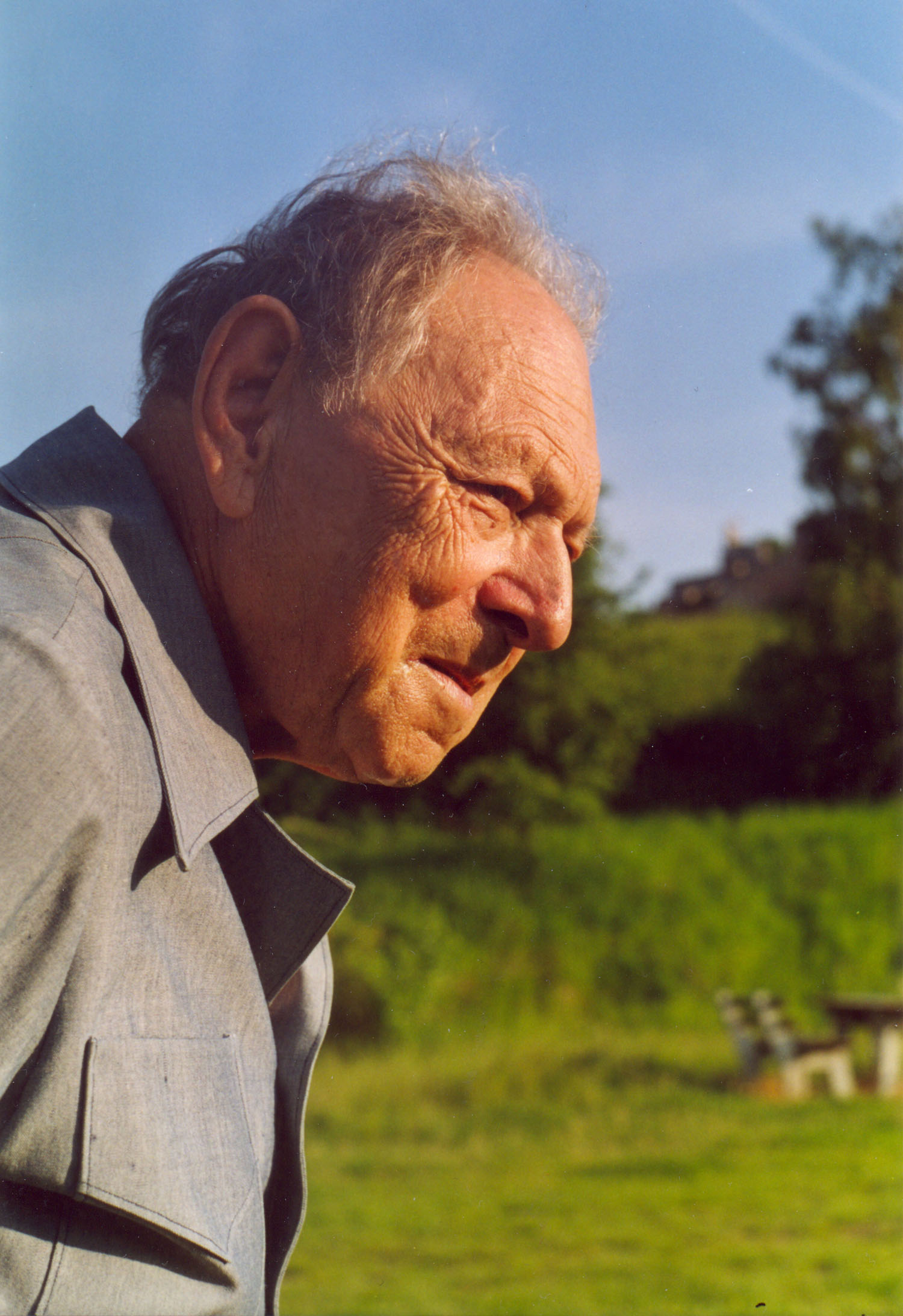 Miloslav Krbec 1924-2003 Česky: Miloslav Krbec 1924-2003